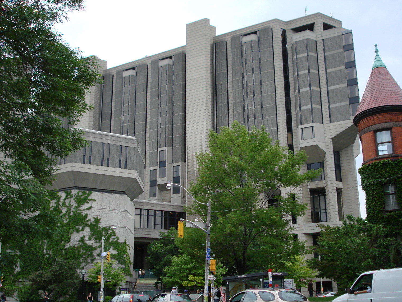 Summary Author: SM108 Source: My Sony DSC-W100